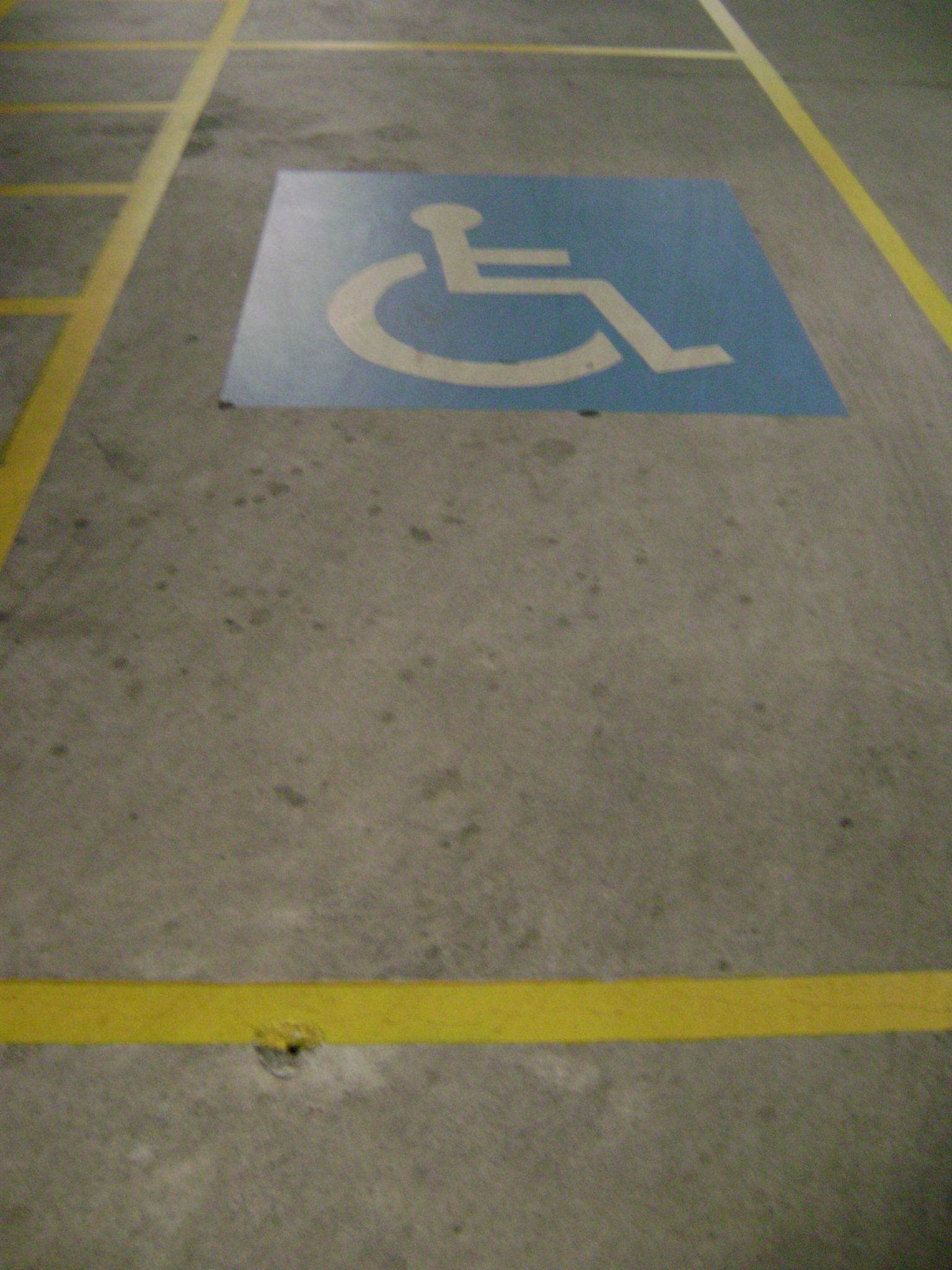 Vacancy for special people.